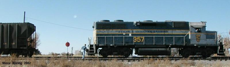 BAR 357 switches a potato packing plant in Ucon, Idaho.